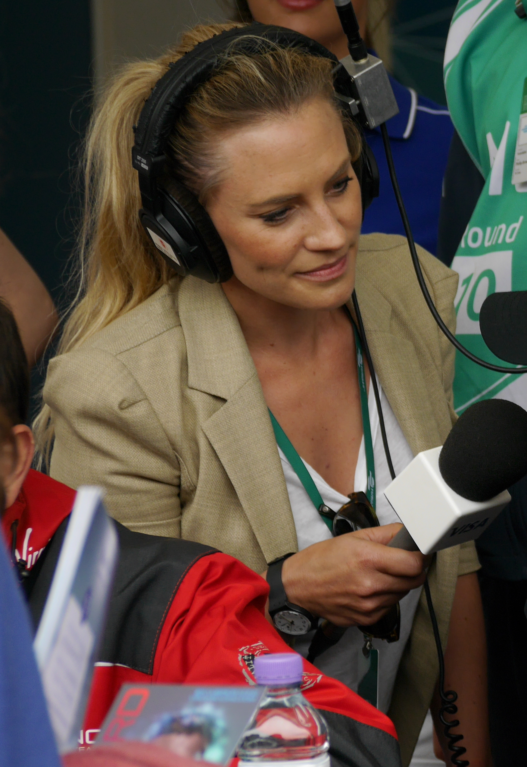 Georgie Thompson interviewing at the en:2015 London ePrix